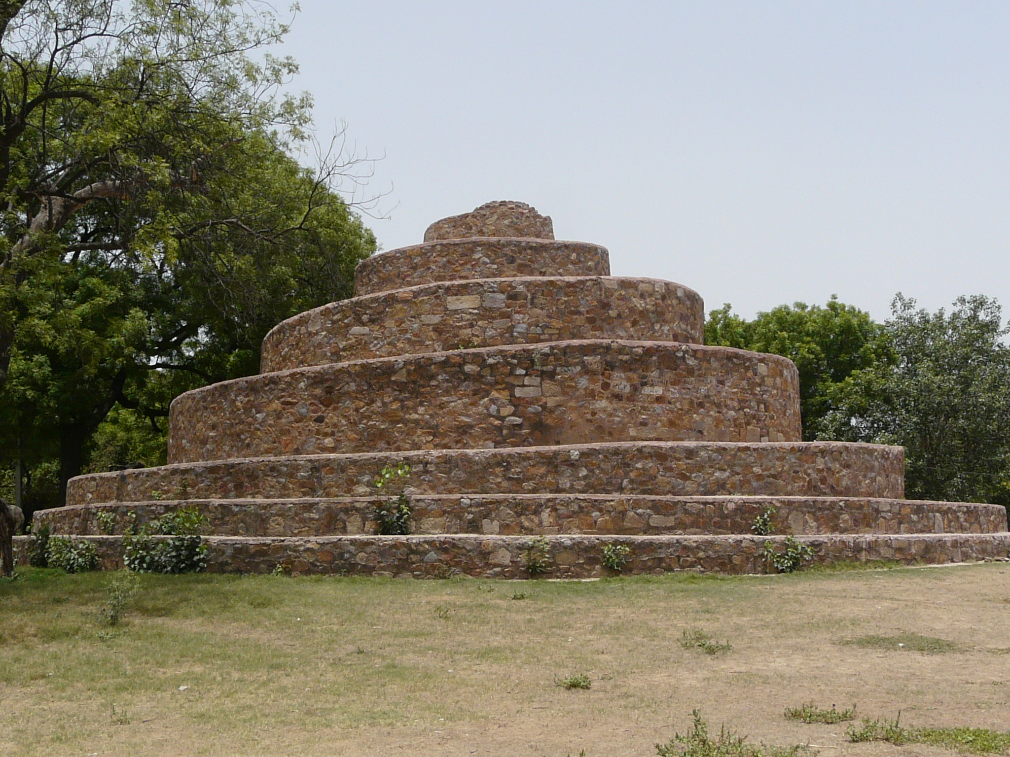 Another of Sir Thomas Metcalfe's follies, close to the Qutb Minar parking lot.